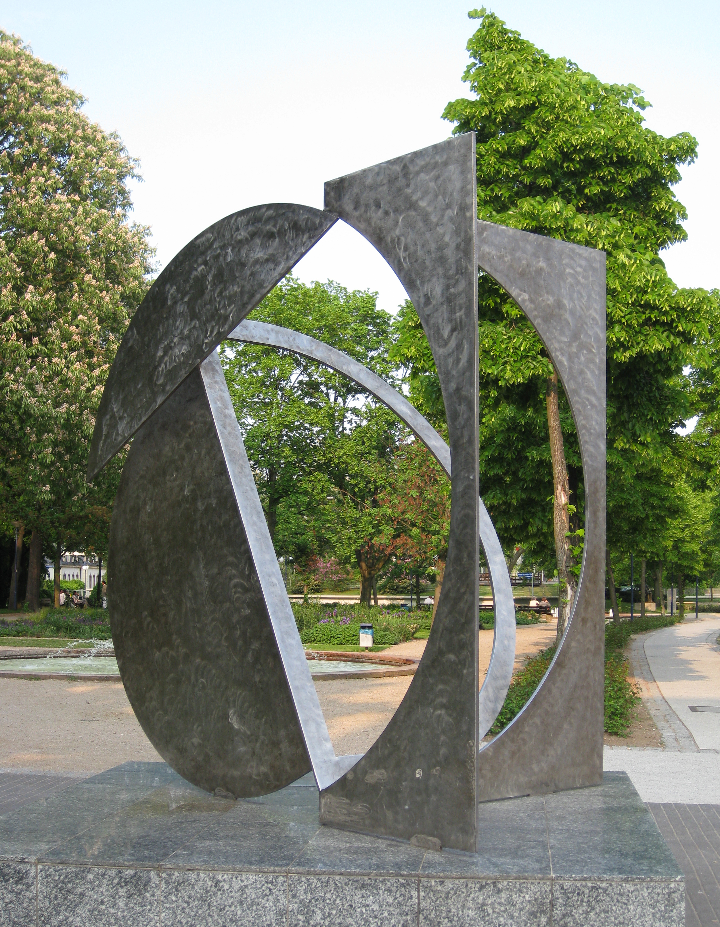 Sculpture „Folded Square D“ by Fletcher Benton in Offenbach (Berliner/Kaiserstr.) Germany